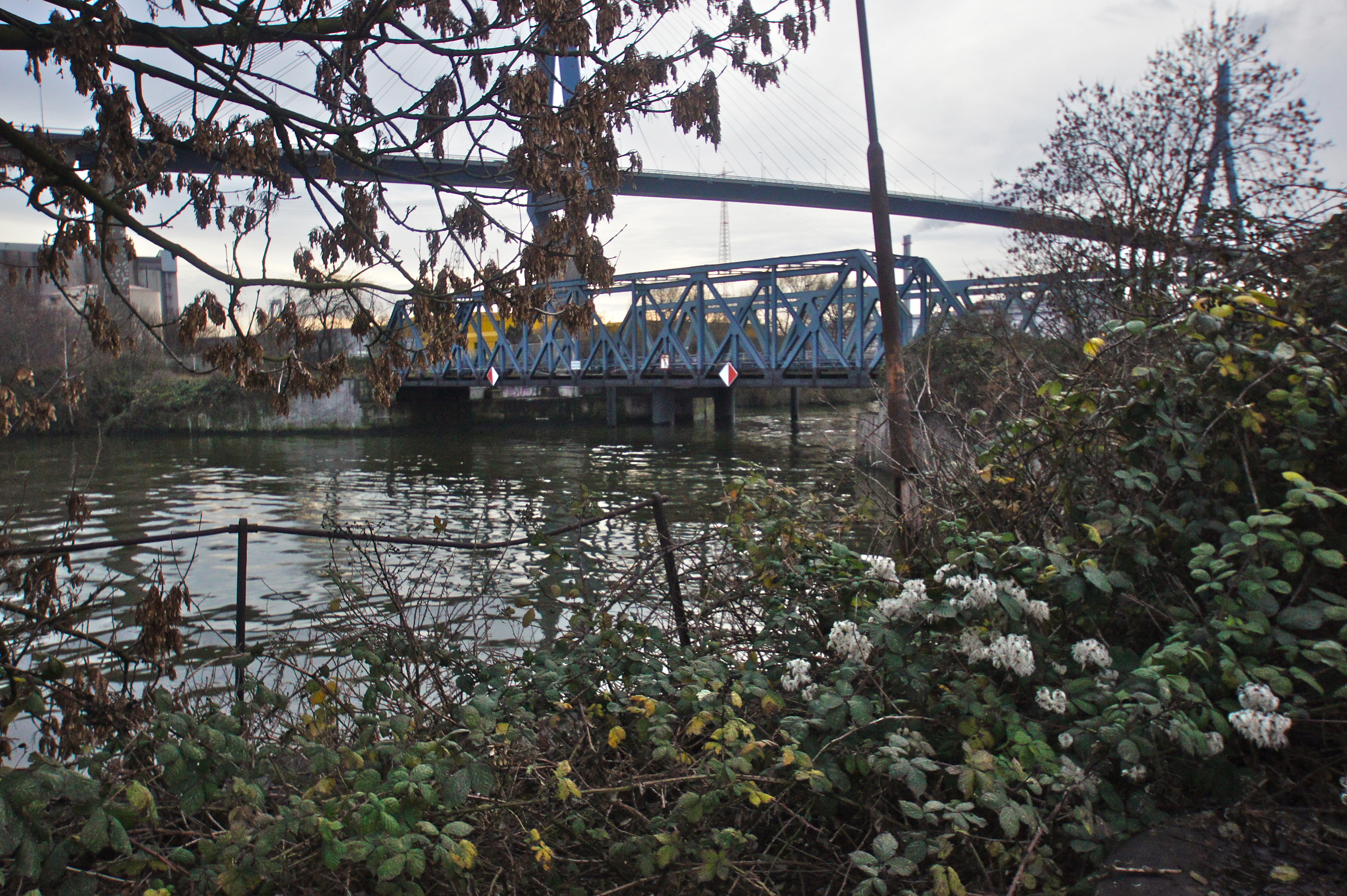 Hamburg (Steinwerder), Germany: The Rossbridge over the Rosskanal